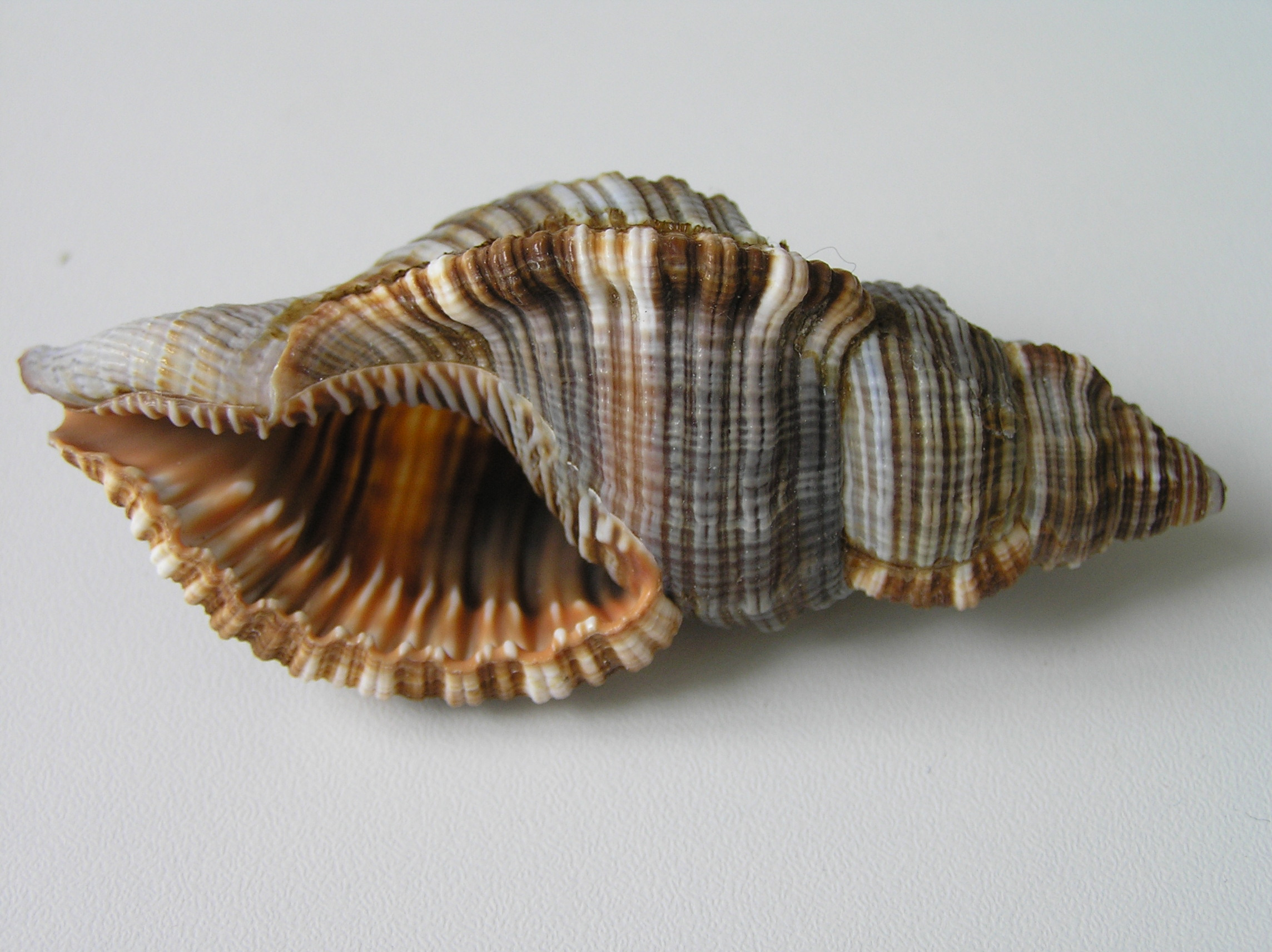 Monoplex macrodon (synonym : Cymatium pileare)